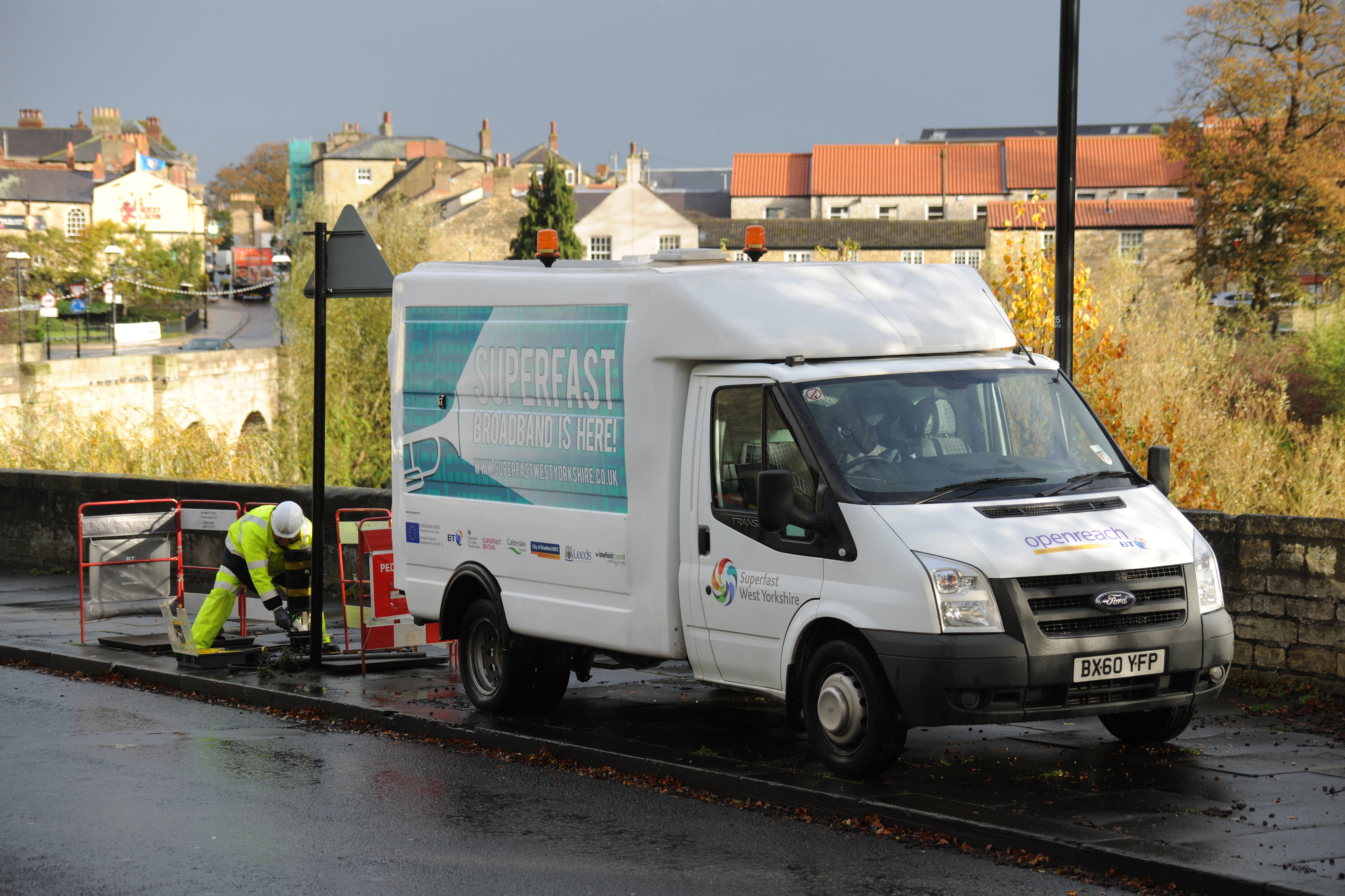 Picture shows: Openreach engineer Paul Bardsley surveying for the Superfast West Yorkshire project at Wetherby. Superfast West Yorkshire builds on BT’s commercial investment of £2.5 billion to rollout fibre broadband to two-thirds of UK premises. Leeds City Council, Bradford Metropolitan District Council, Wakefield Council and Calderdale Council are working with BT to extend high-speed fibre broadband to 97 per cent of households and businesses across the majority of West Yorkshire by the end of 2015. The programme also aims to ensure all premises in this area have access to speeds of more than 2Mbps. The £21.96 million investment is made up of Government funding from BDUK combined with funding from the European Regional Development Fund (ERDF), BT and four West Yorkshire local authorities. For further info contact: BT Regional Press Office on 0800 085 0660. All our news releases can be found at Photo: Johnnie Pakington